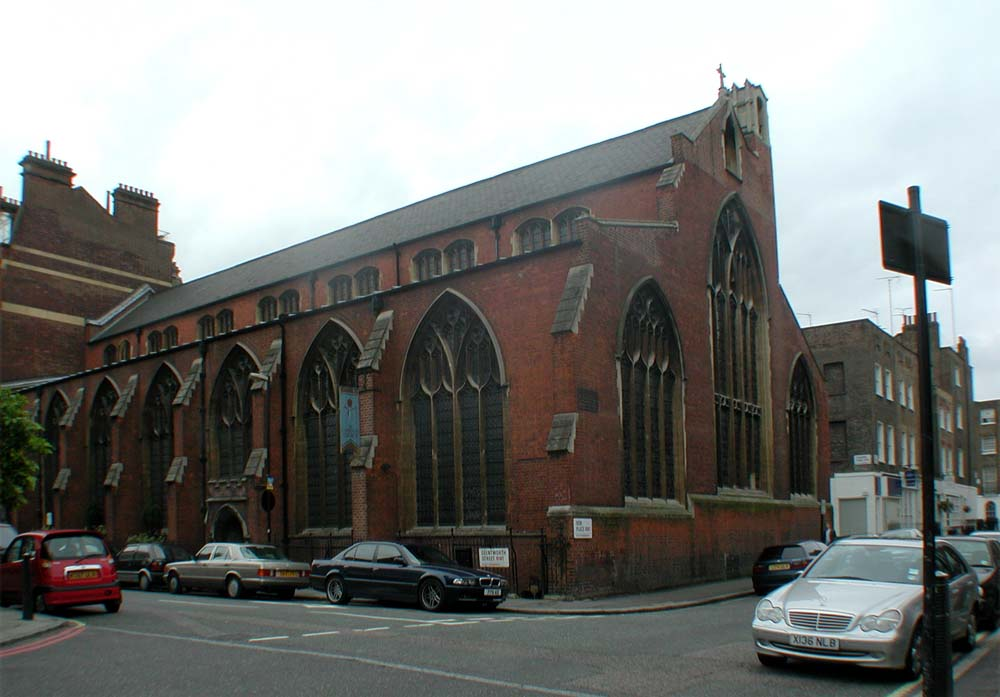 St Cyprian, Glentworth Street, London NW1.